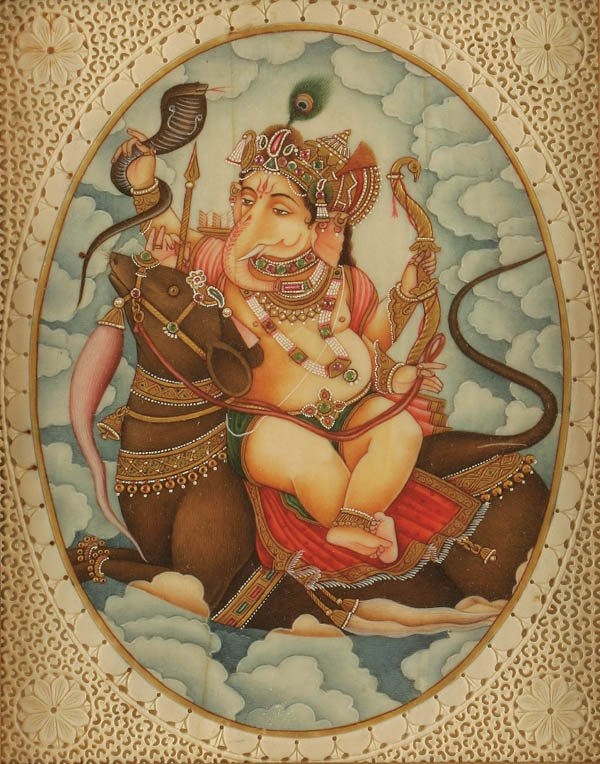 Ganesh sits affectionately with his vahana, Mushika (carved and painted ivory plaque, later 1900's); *another plaque* Source: ebay, Nov. 2006